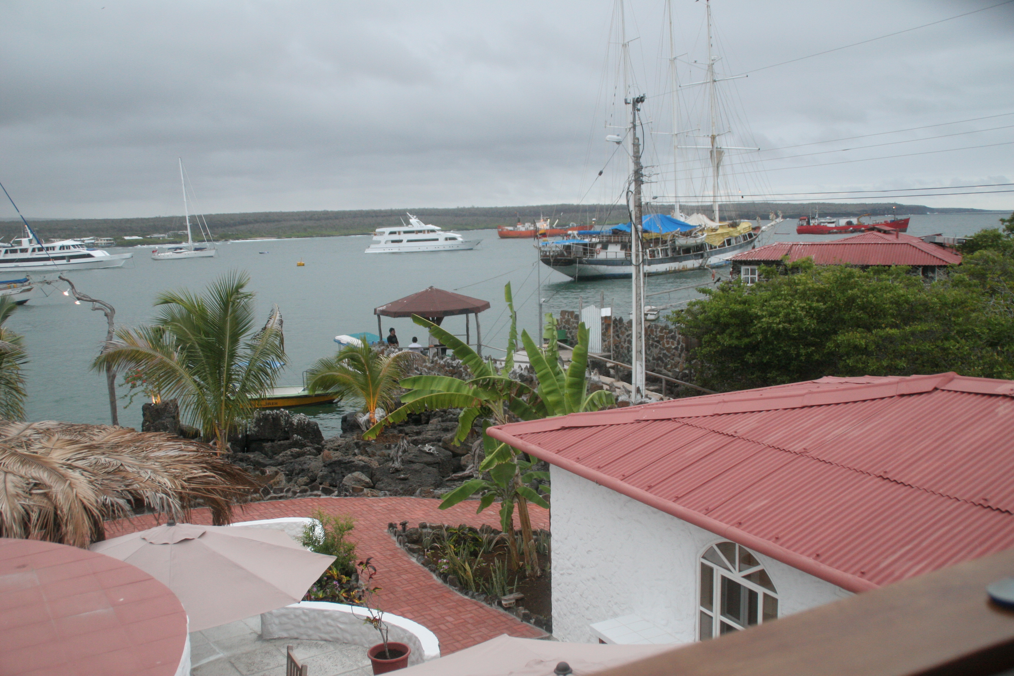 View from our balcony room at the Angermeyer Inn in Puerto Ayora.